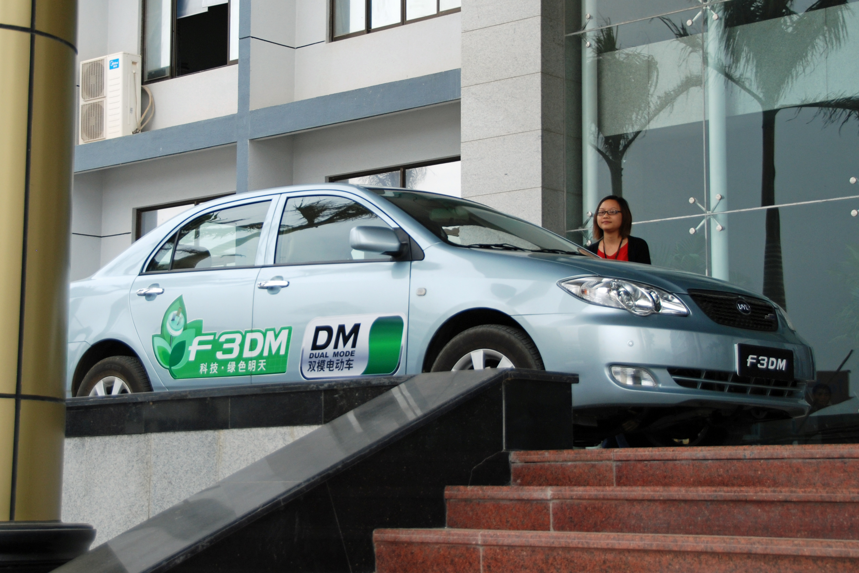 BYD F3DM plug-in hybrid (Original text: Hybride BYD F3DM voor het hoofdkantoor van BYD)